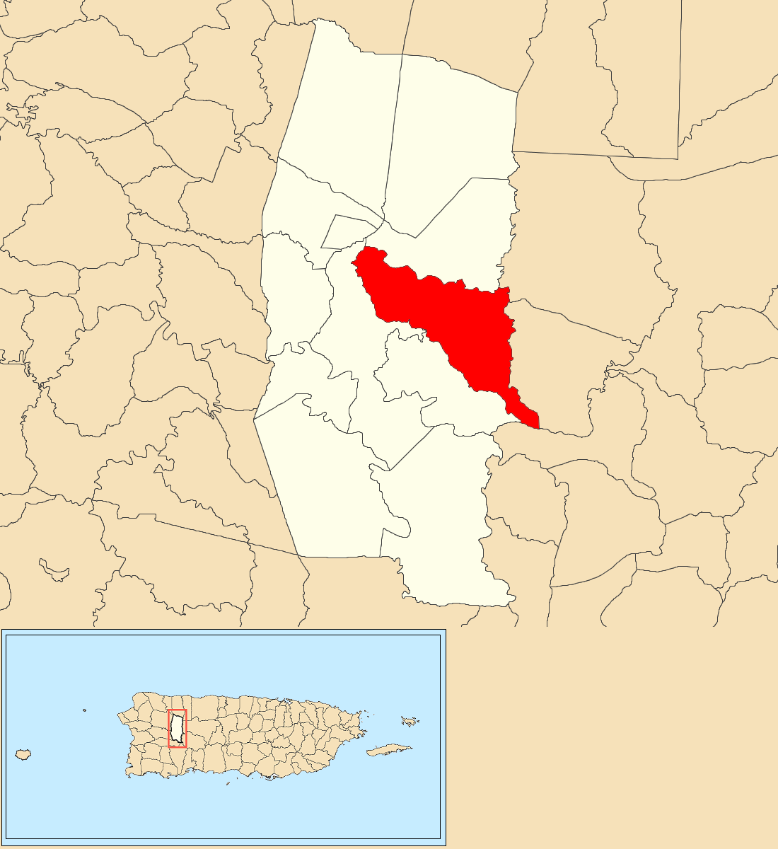 Buenos Aires, Lares, Puerto Rico locator map